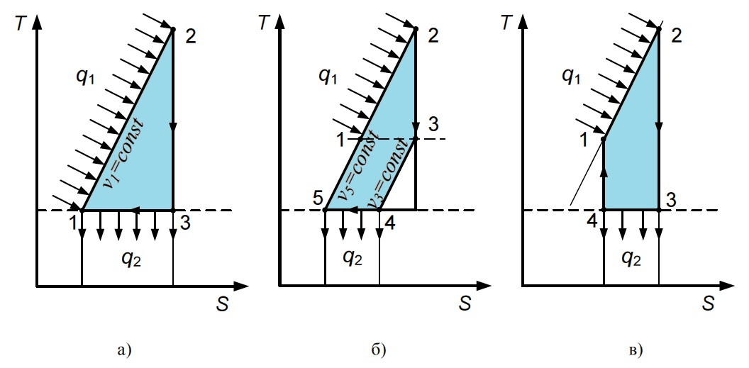 Edward's reference cycle for internal and external combustion engines